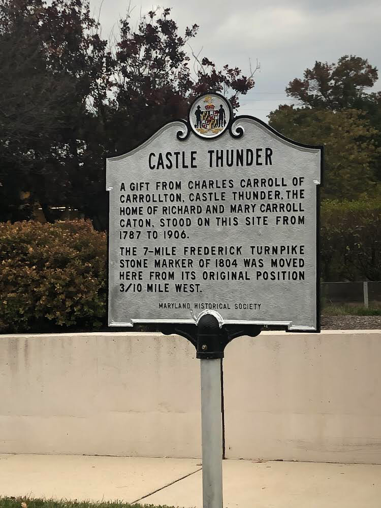 A historical marker stands at the location of Castle Thunder, torn down in 1907, on Frederick Road in Catonsville, Maryland.